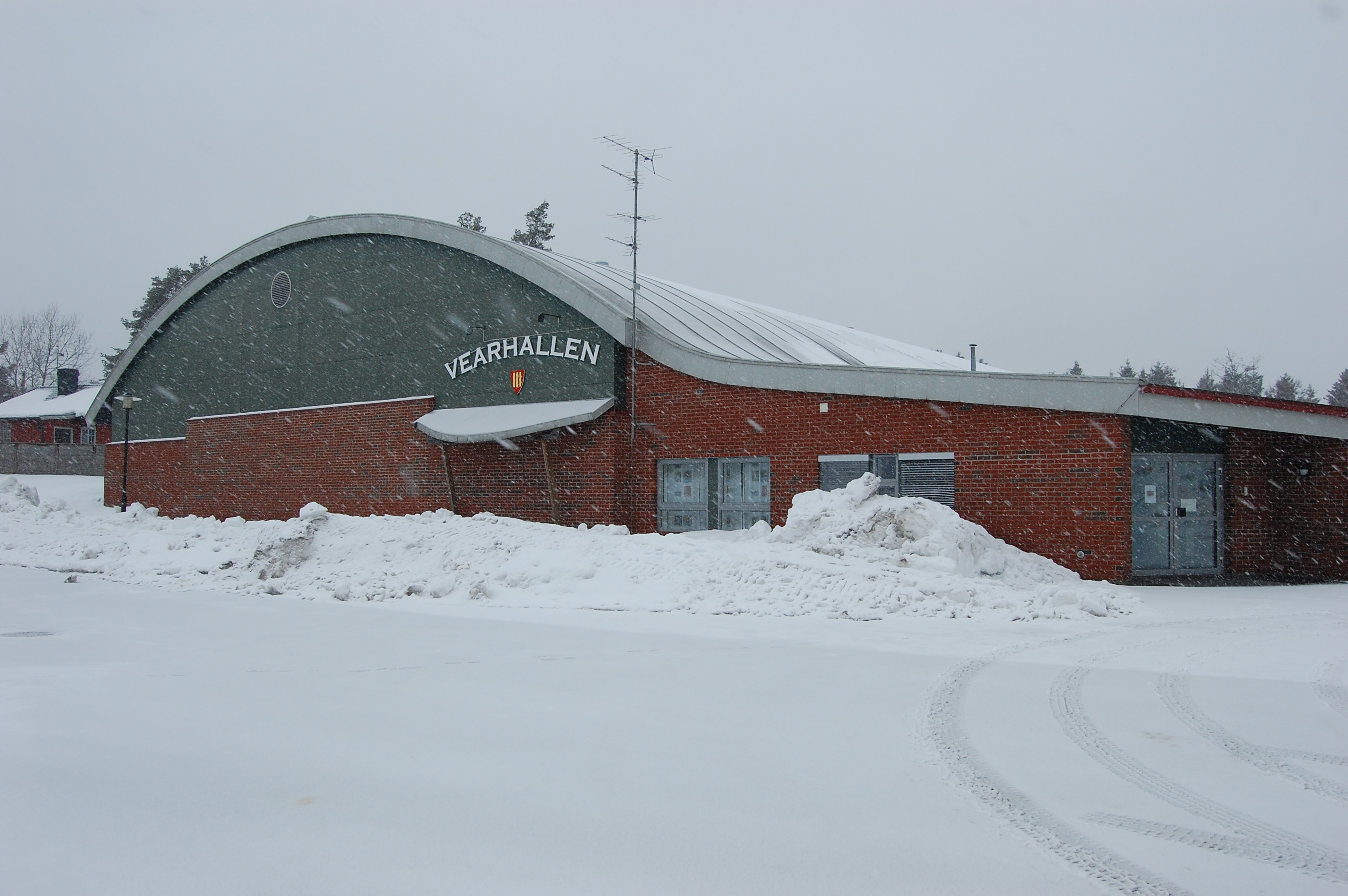 Vearhallen, Vear, in snow